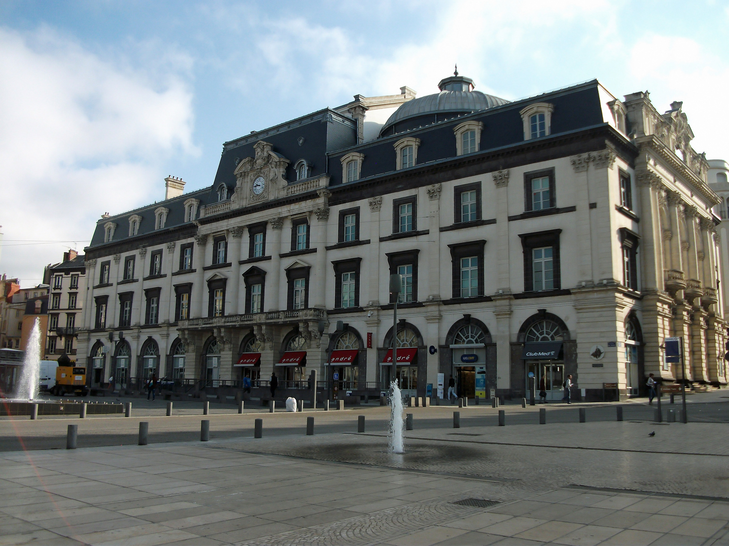 Opera-Theatre (former Municipal Opera) of Clermont-Ferrand in the morning, from Place de Jaude [9050]